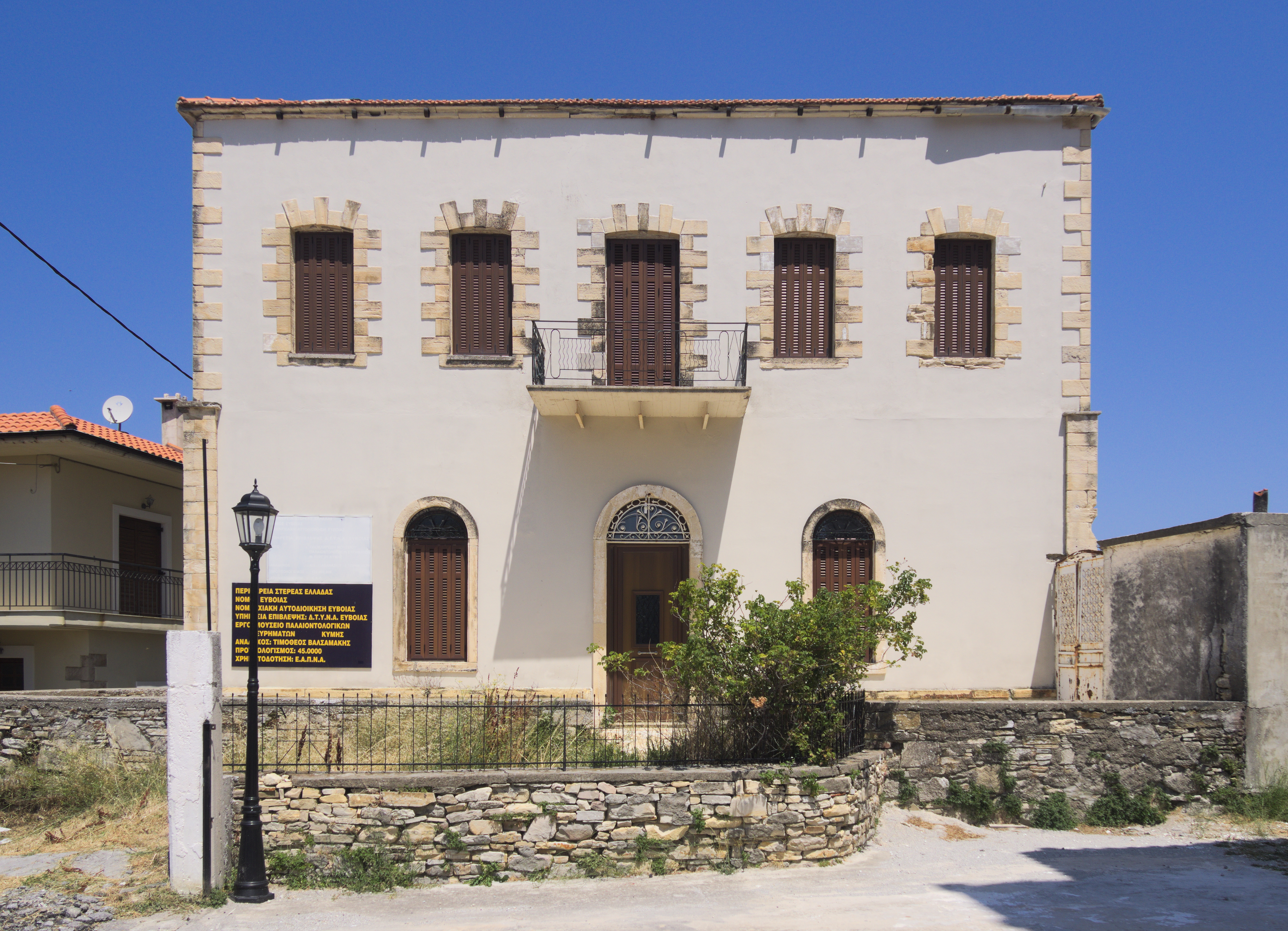 Chrysanthopoulos mansion, Pyrgos, Kymi-Aliveri.